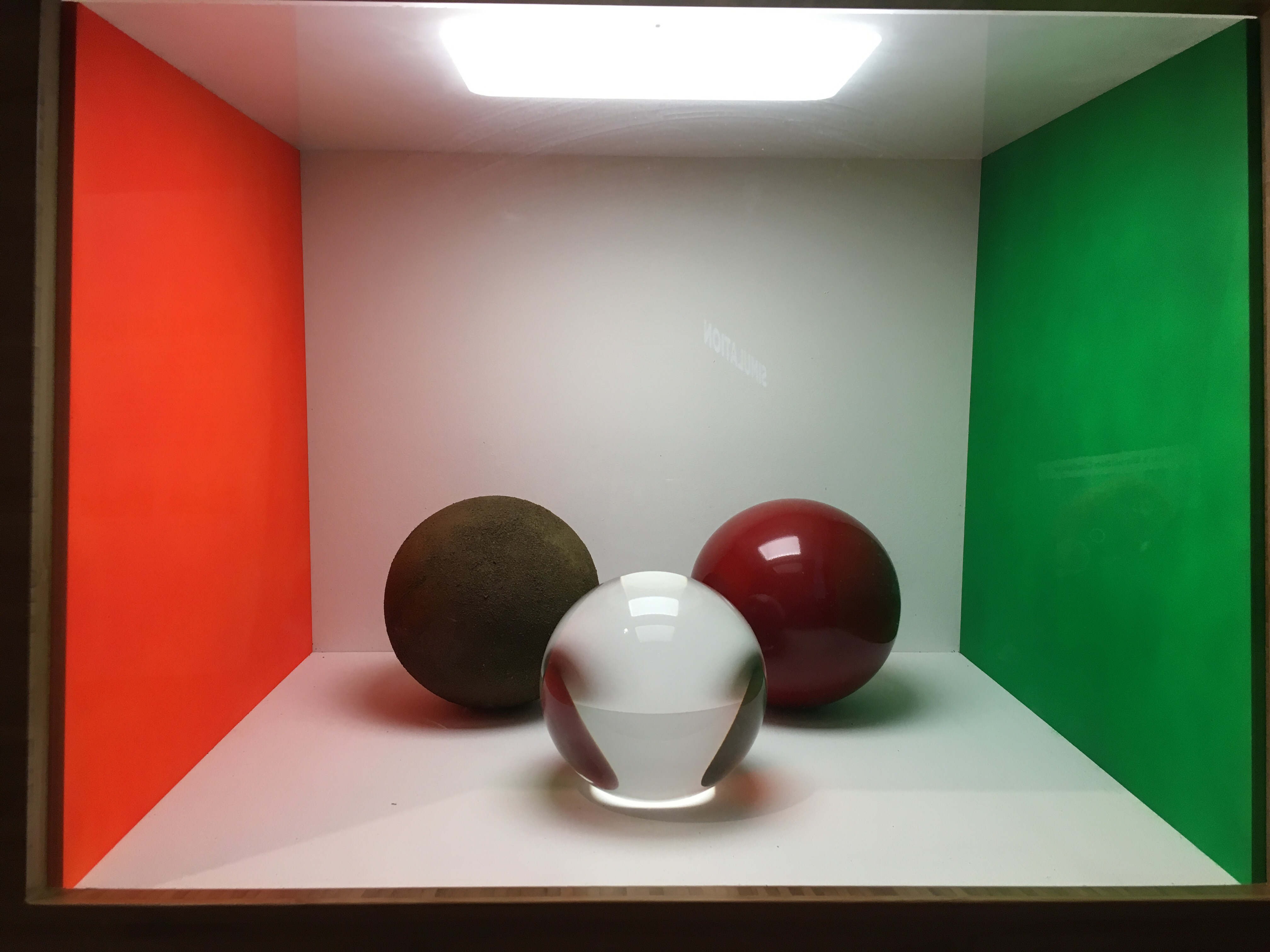 This is a Cornell box with 3 balls, each made of different materials. The box demonstrates how different surfaces reflect/refract light.